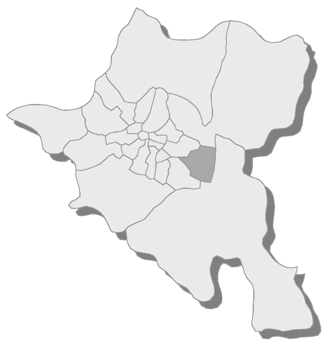 Sofia, municipality Iskar